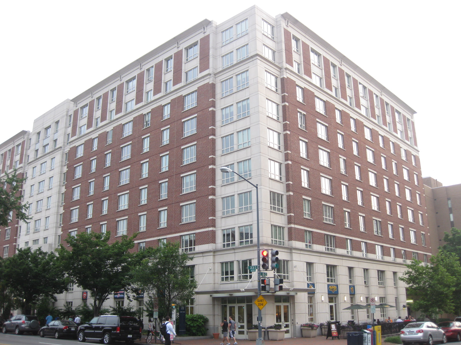 Ivory Tower residence hall at the George Washington University.